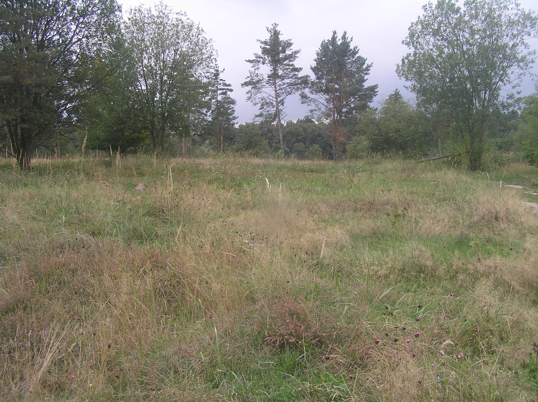 Na Plachtě, Hradec Králové, Czech Republic